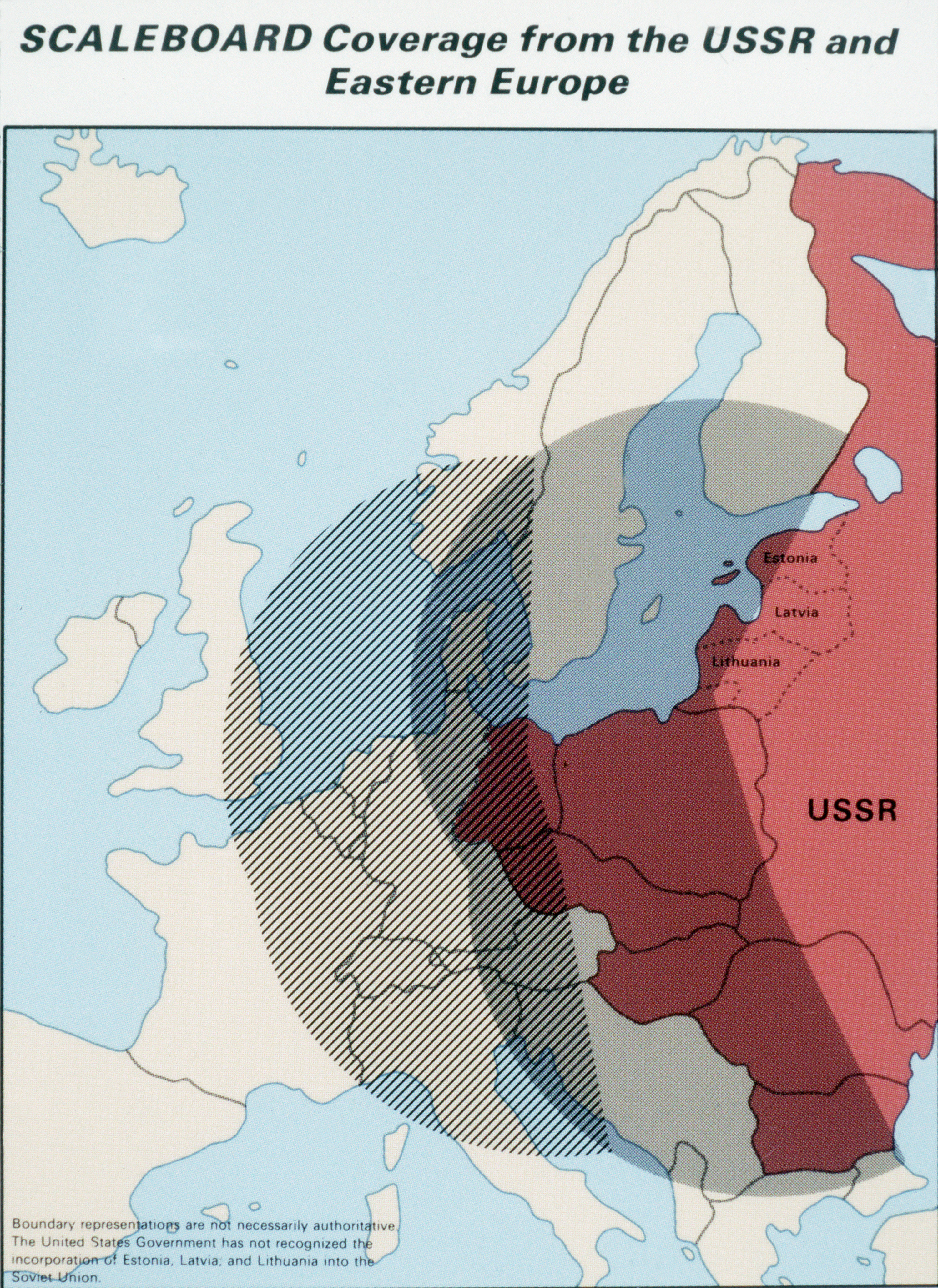 A map depicting Soviet Scaleboard missile coverage from the Soviet Union and Eastern Europe.